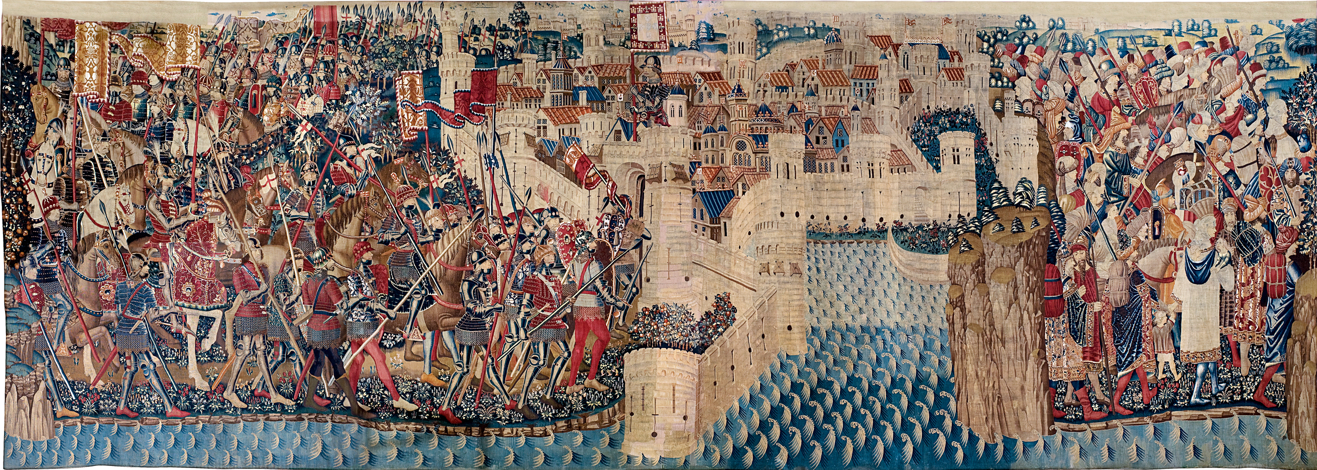 Fall of Tangier, from the Pastrana series of tapestries